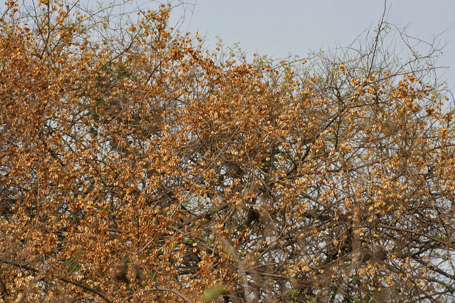 Combretum albidum - Piluki, oval-leaved wheel creeper, Dhavshira, Pewar Wel, Pilokha, Verragay, Odaikodi, Vennangukodi, Geddepeyyeru, Shirtal Boddi, Putangi, Yada-tige, ulavai maram at Deer Park in Shamirpet, Rangareddy district, Andhra Pradesh, India.